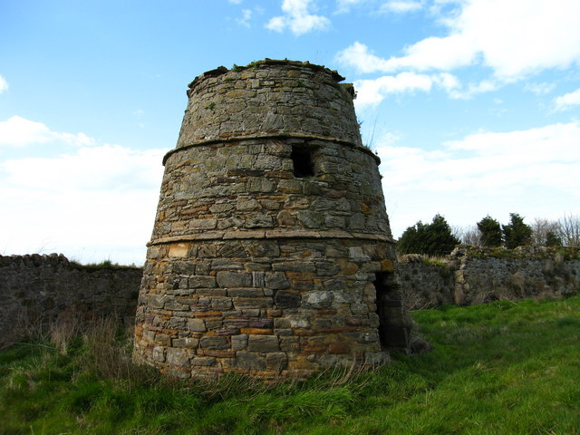 Doocot at Dolphingstone The first doocots built in Scotland were the beehive doocots that appeared in the 16th century, typically circular-plan conical structures with pigeon access to the central chamber by means of an oculus opening at the building's apex. The Dolphingstone Doocot, originally connected with the late 17th century, now ruined, Cowthrople House, has the remains of a cupola evident on its roof, and evidence of shells being used in the structure's mortar. This 17th century, beehive type dovecot measures 51ft in circumference at the base. It has a flattish domed roof and two string courses. There is an entry for pigeons through an opening in the centre of the roof, and two other openings in the wall, about 2ft square. No nests remain.